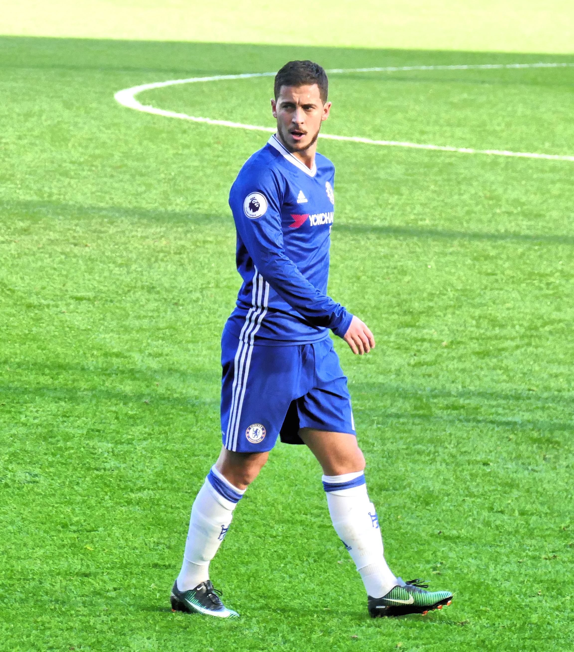 Eden Hazard, Stamford Bridge, December 2016